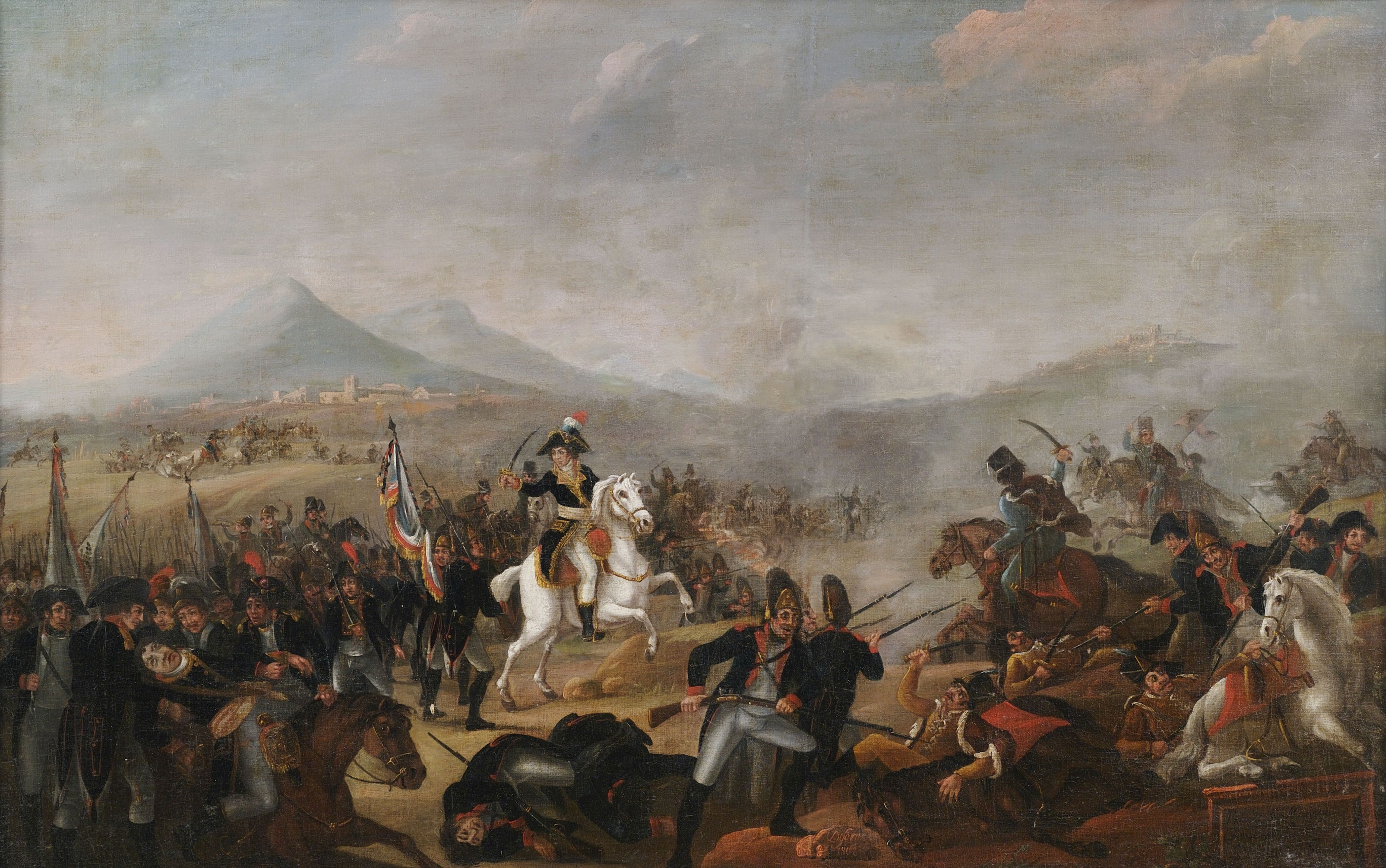 Napoleon in the Battle of Marengo